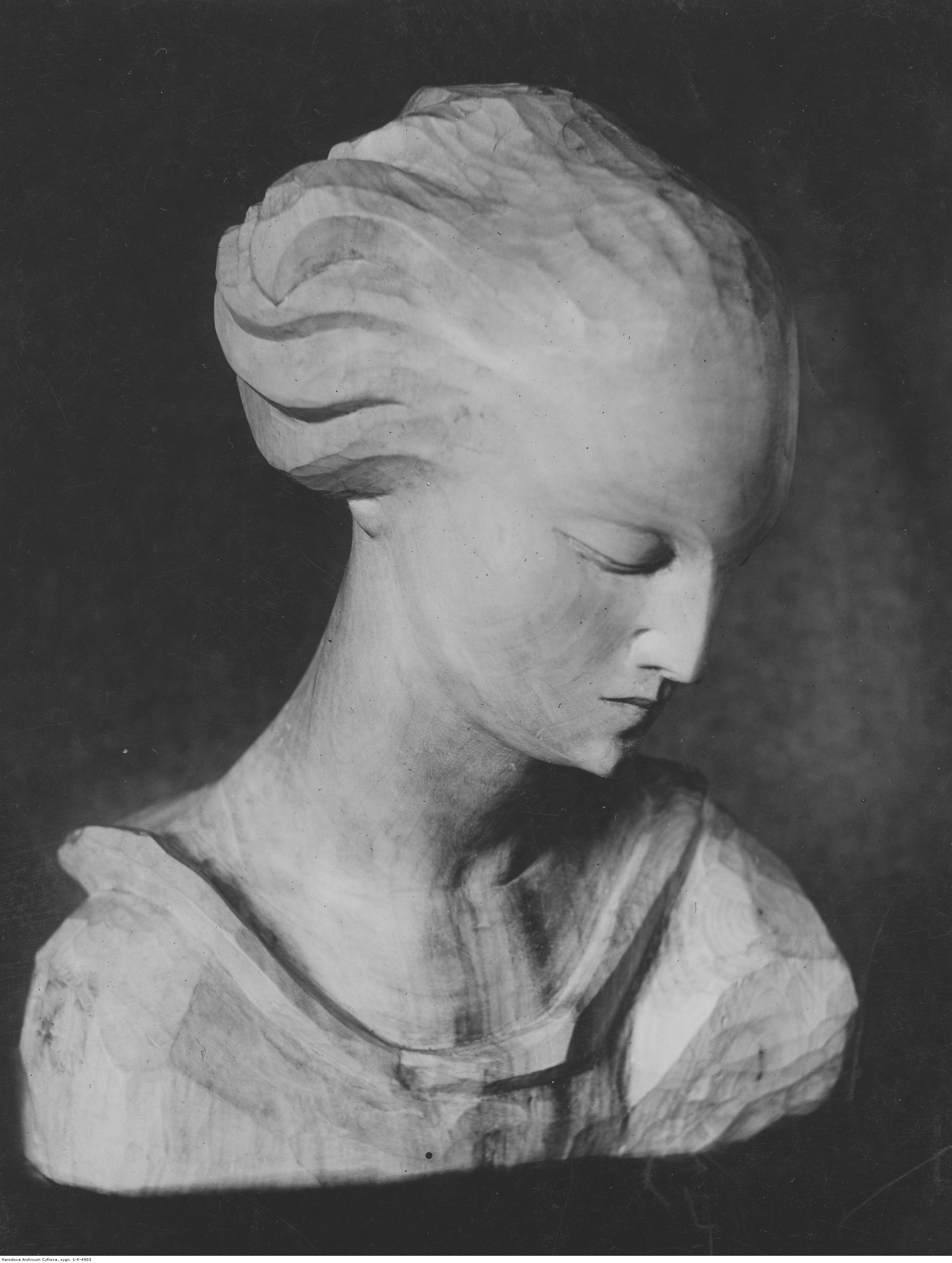 Sculpture of Janina Reichert "Angel's head", 1929 r.